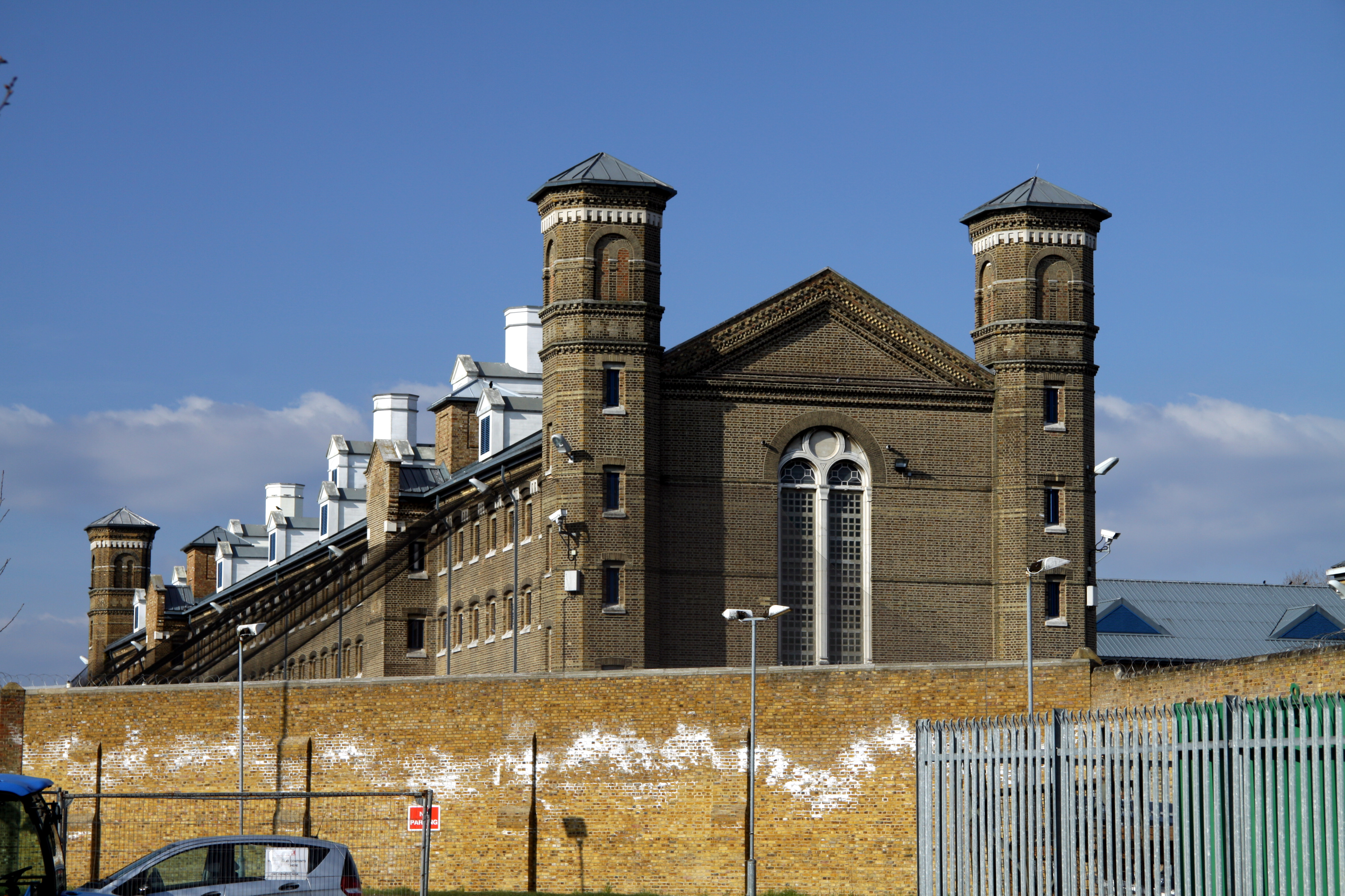 HM Prison Wormwood Scrub in London, England, Great Britain